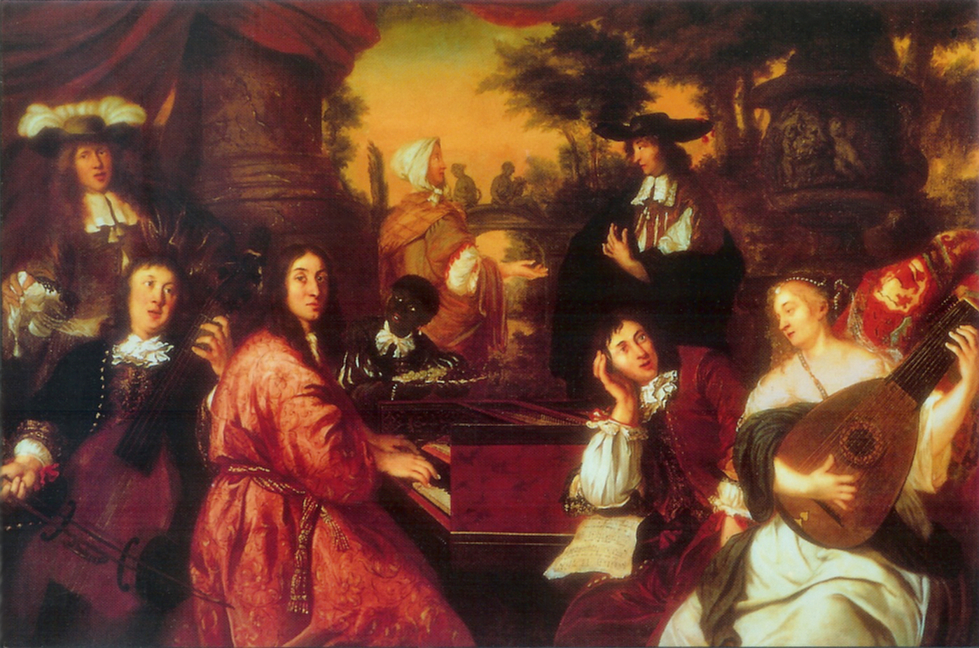 The picture shows Dietrich Buxtehude playing a viol, Johann Adam Reinken at the harpsichord, and an unidentified person singing (possibly Johann Philipp Förtsch, singer and composer at the Hamburg opera). Johann Theile definitely is not pictured on this painting - the recent discovery of a portrait of Theile from a contemporary music print shows a different person. The singer in the painting has often been erroneously identified as Buxtehude. Nowadays it is assumed to be a self-portrait of the painter. See also Musizierende Gesellschaft or Musical Company, Johannes Voorhout, 1674.